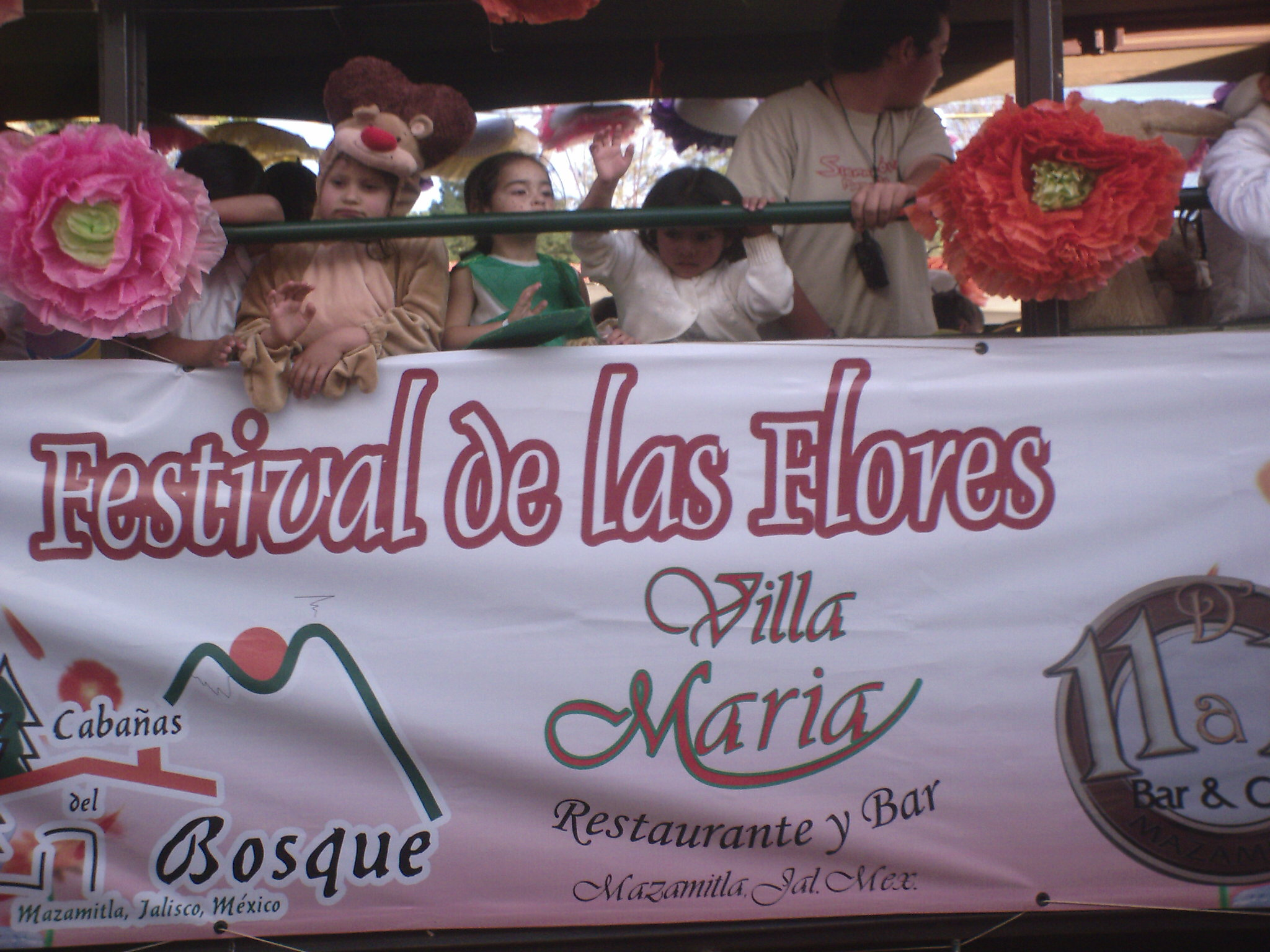 photo